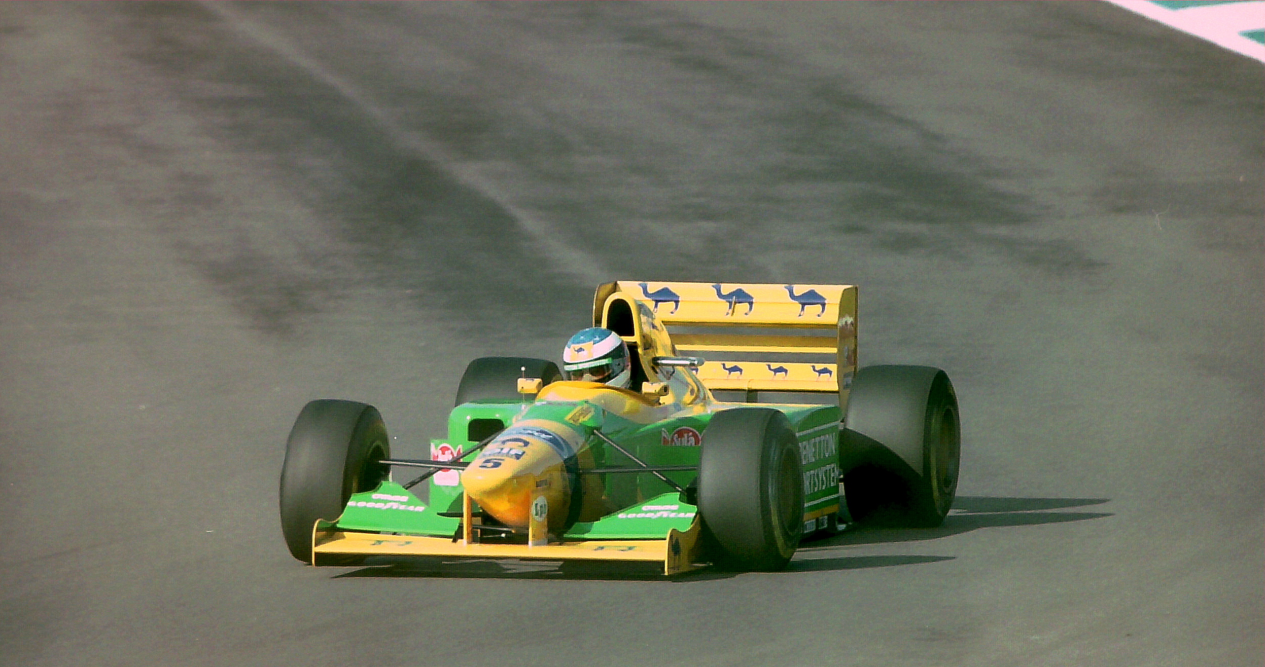 Michael Schumacher at the 1993 European Grand Prix